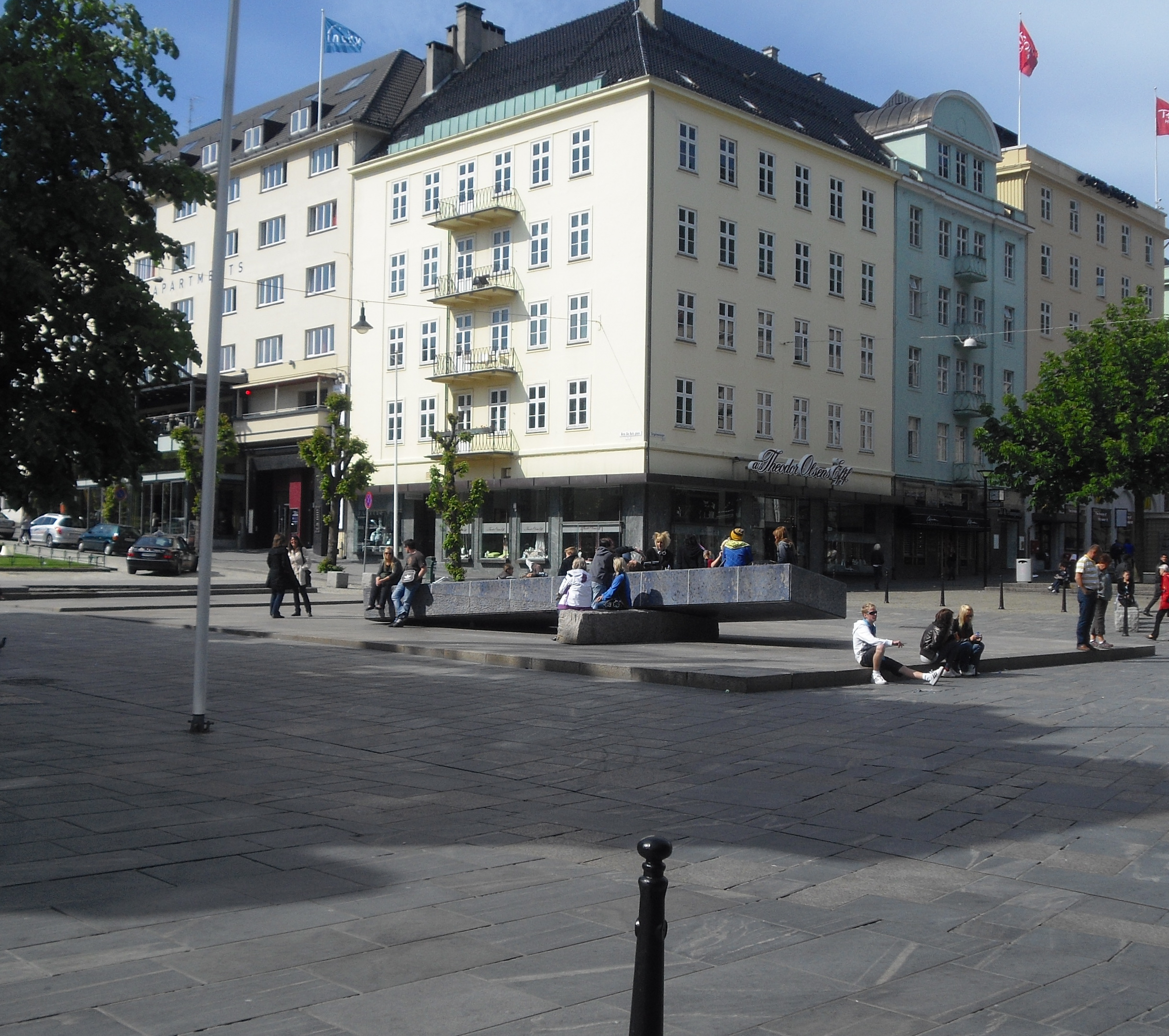 Den blå stein (The blue rock) in Bergen, Norway.